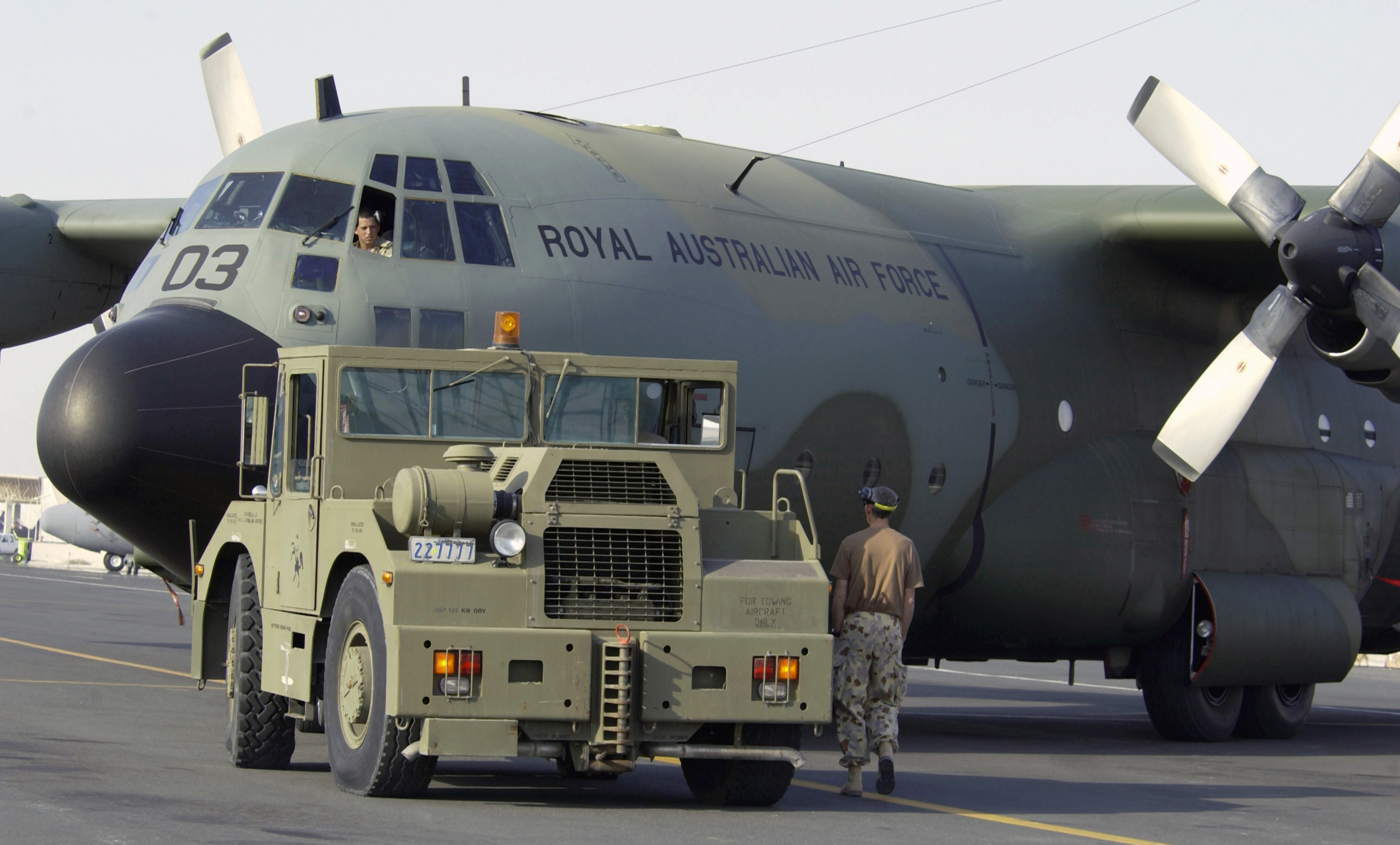 Royal Australian Air Force (RAAF) maintainers from the 36 Squadron, use an aircraft tug to park a RAAF C-130 Hercules on the ramp during Operation IRAQI FREEDOM